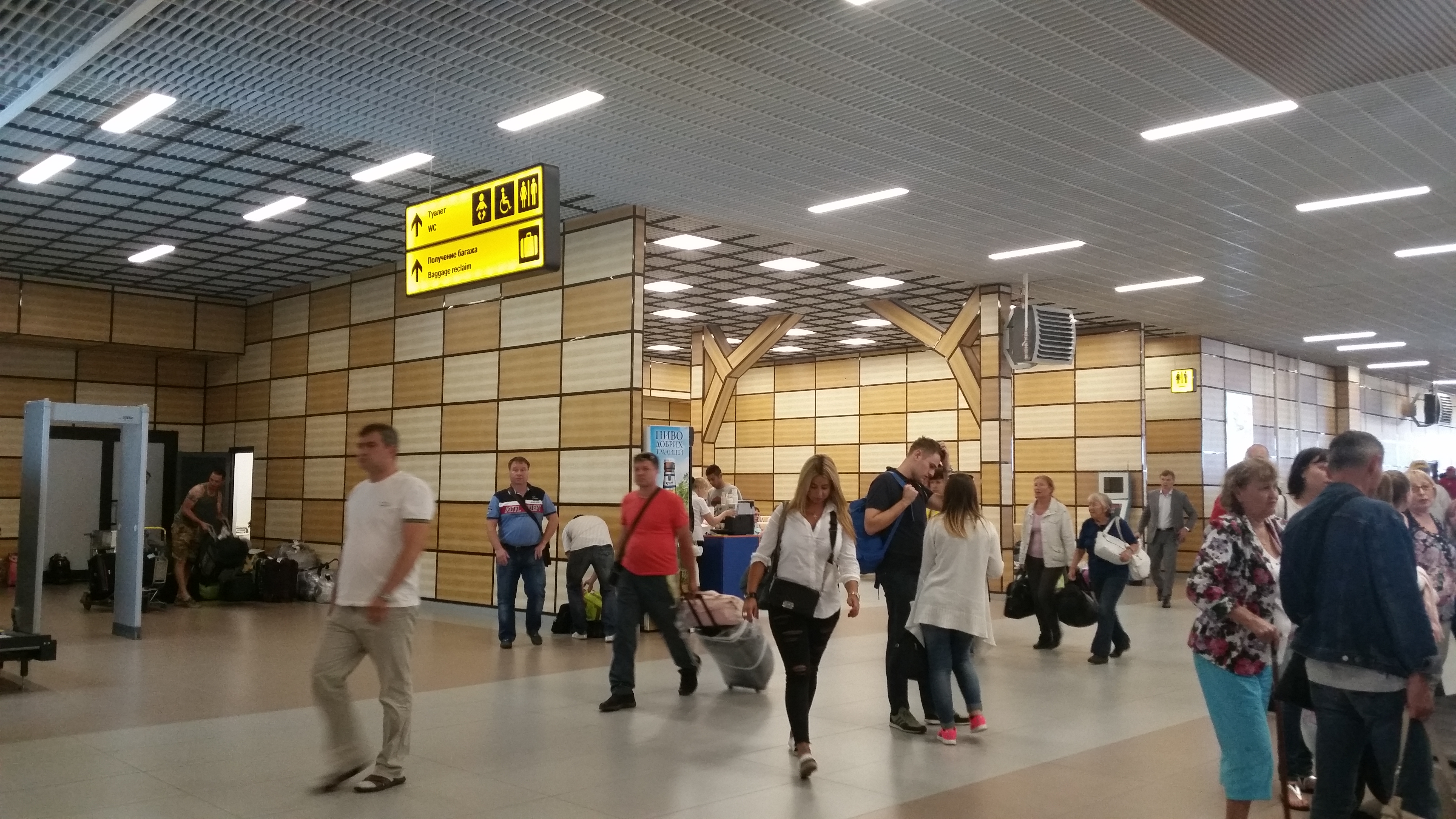 Simferopol Airport